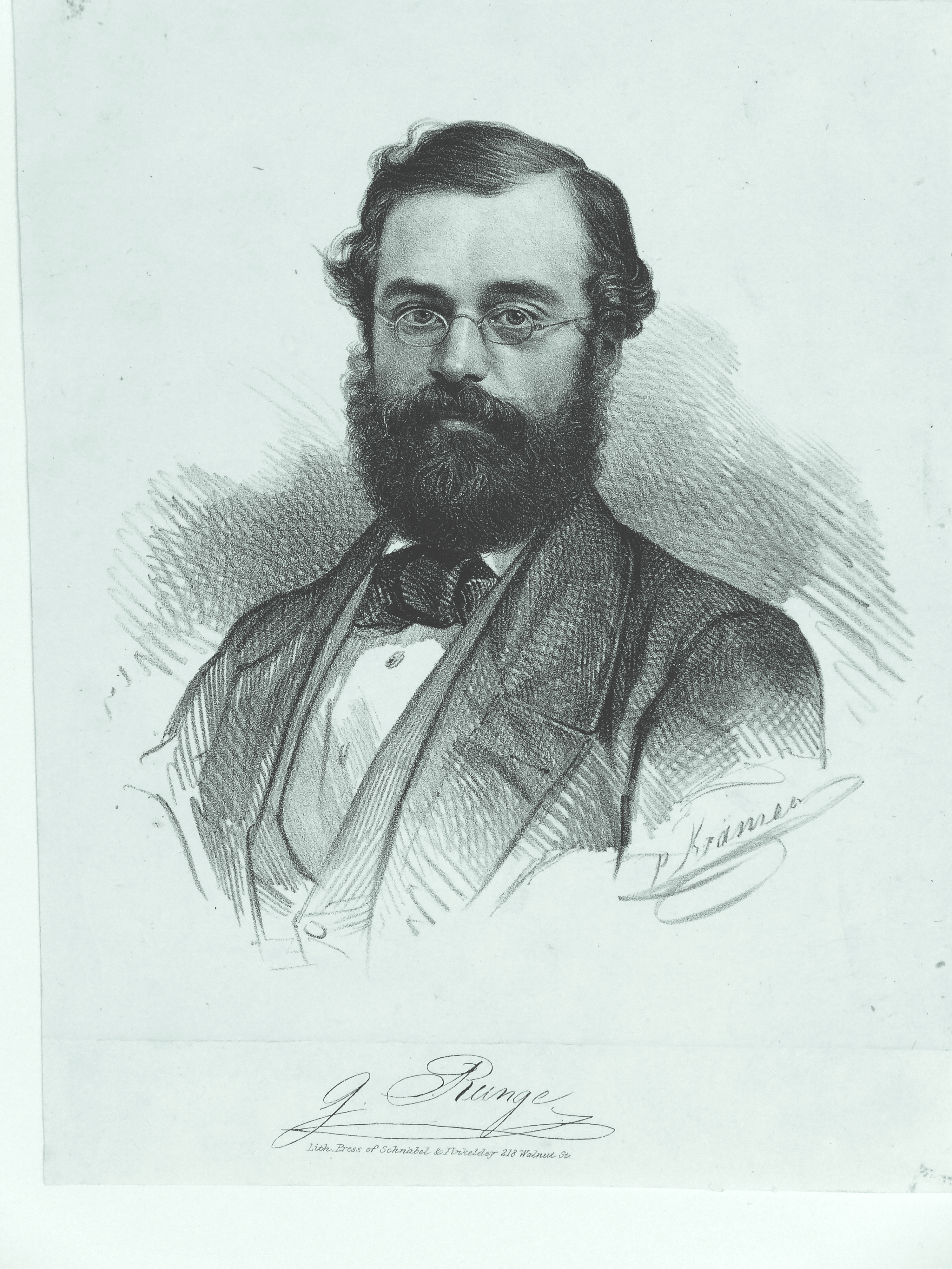 Gustav Runge, Architect from Bremen, working from 1850 to 1861 in Philadelphia. Lithography by Peter Krämer (1823-1907), edited by Schnabel & Finkeldey, Philadelphia, after 1853, about 1860. Focke-Museum Bremen.